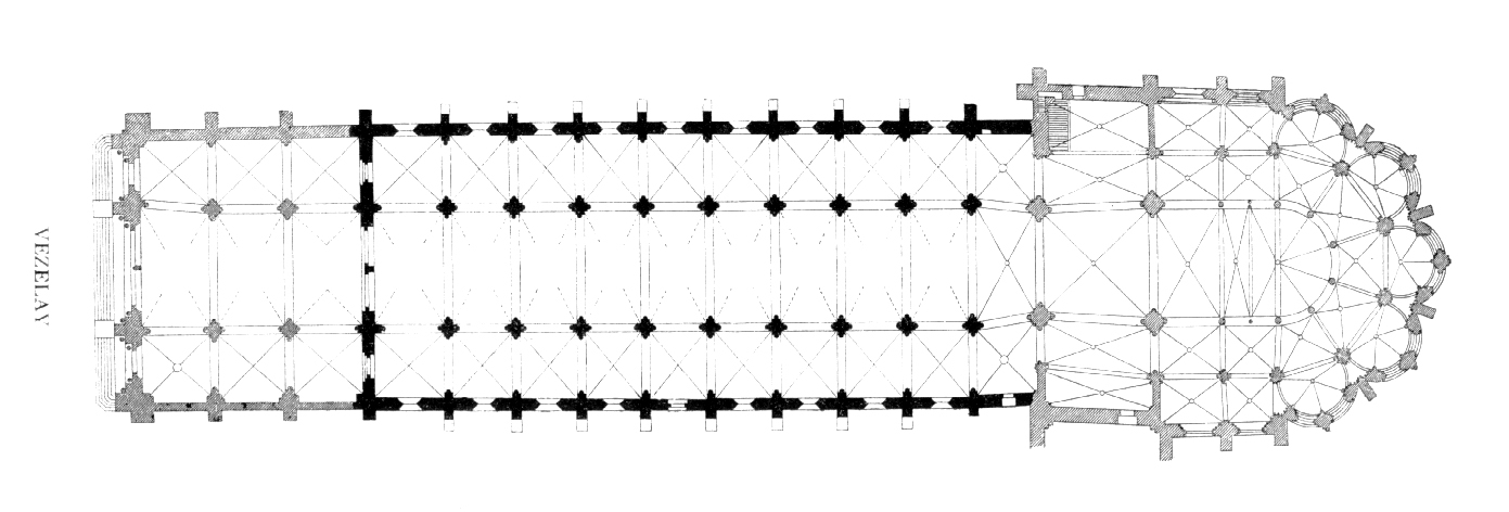 Vezelay. Floorplan, from G. Dehio and G.von Bezold, Die kirchliche Baukunst des Abendlandes, Stuttgart, 1887-1902, fig. 145. Lithograph.